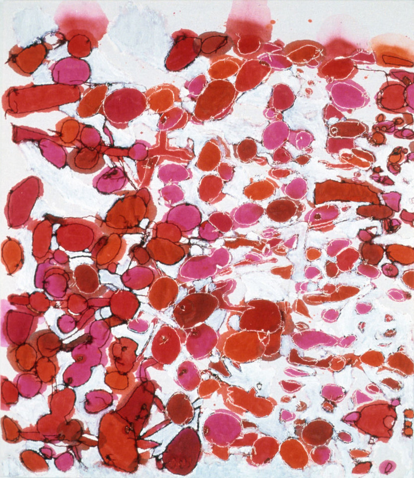 Mixed media painting by artist Merle Temkin, Berries; acrylic paint, dye, thread; 36" x 42", © 2003